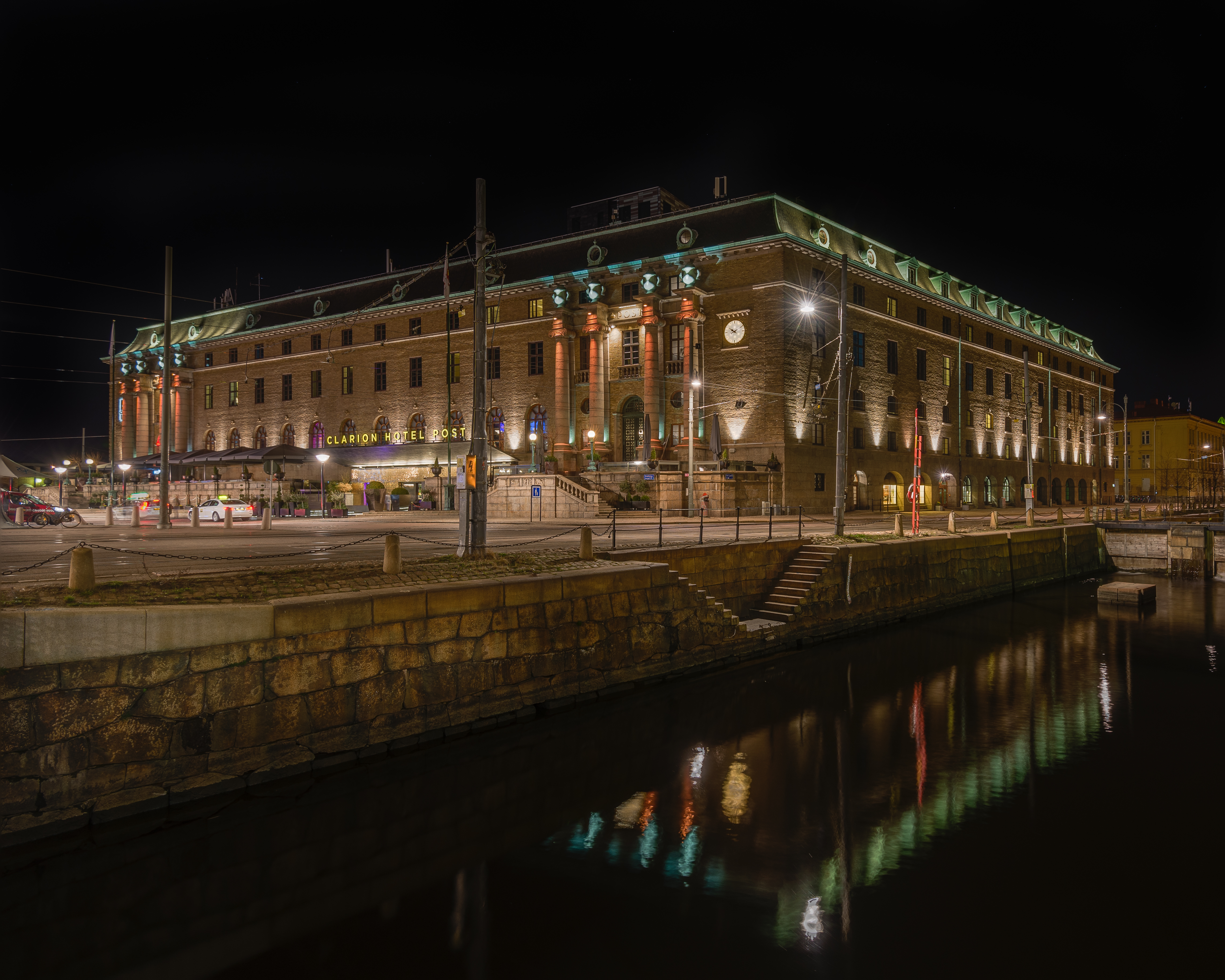 Former central post office building in Gothenburg, Sweden. Today Clarion Hotel Post.